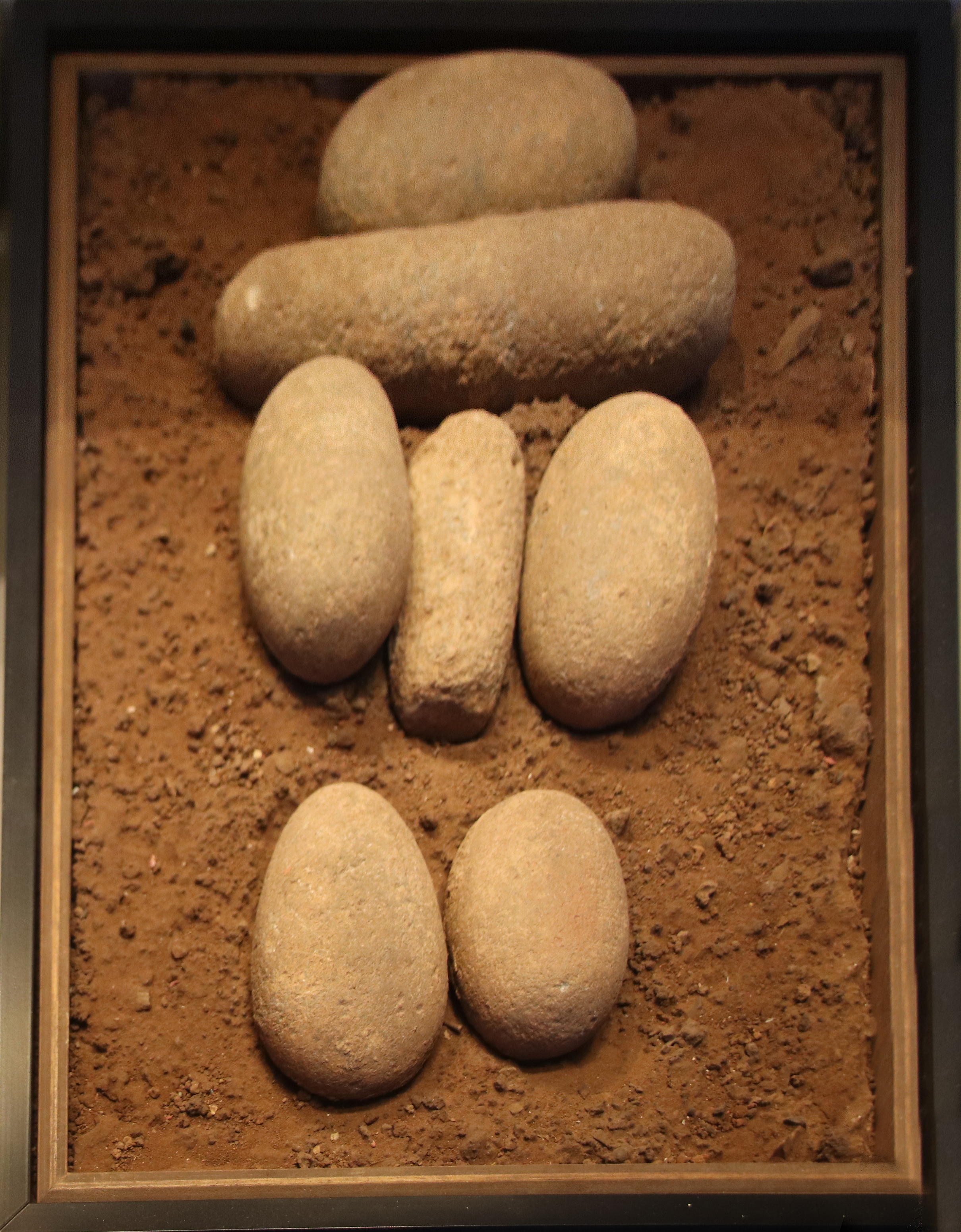 Israel Museum Stone Age Israel Museum, Jerusalem, Israel. Complete indexed photo collection at .